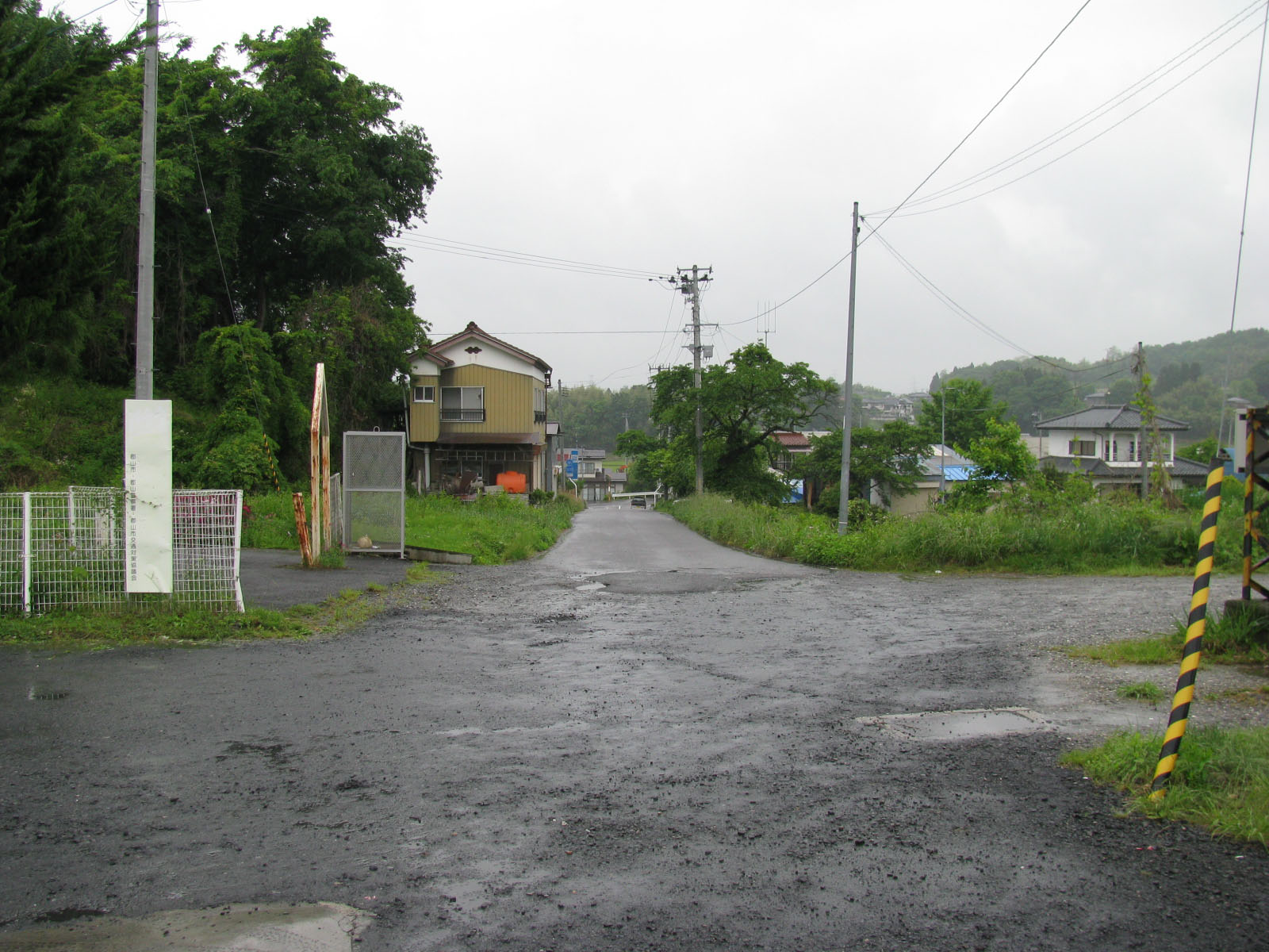 Yatagawa Station on Suigun Line